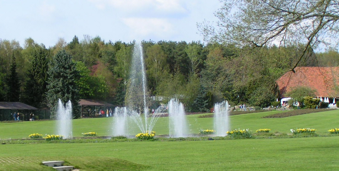 Park of Vogelpark Walsrode, Walsrode, Germany